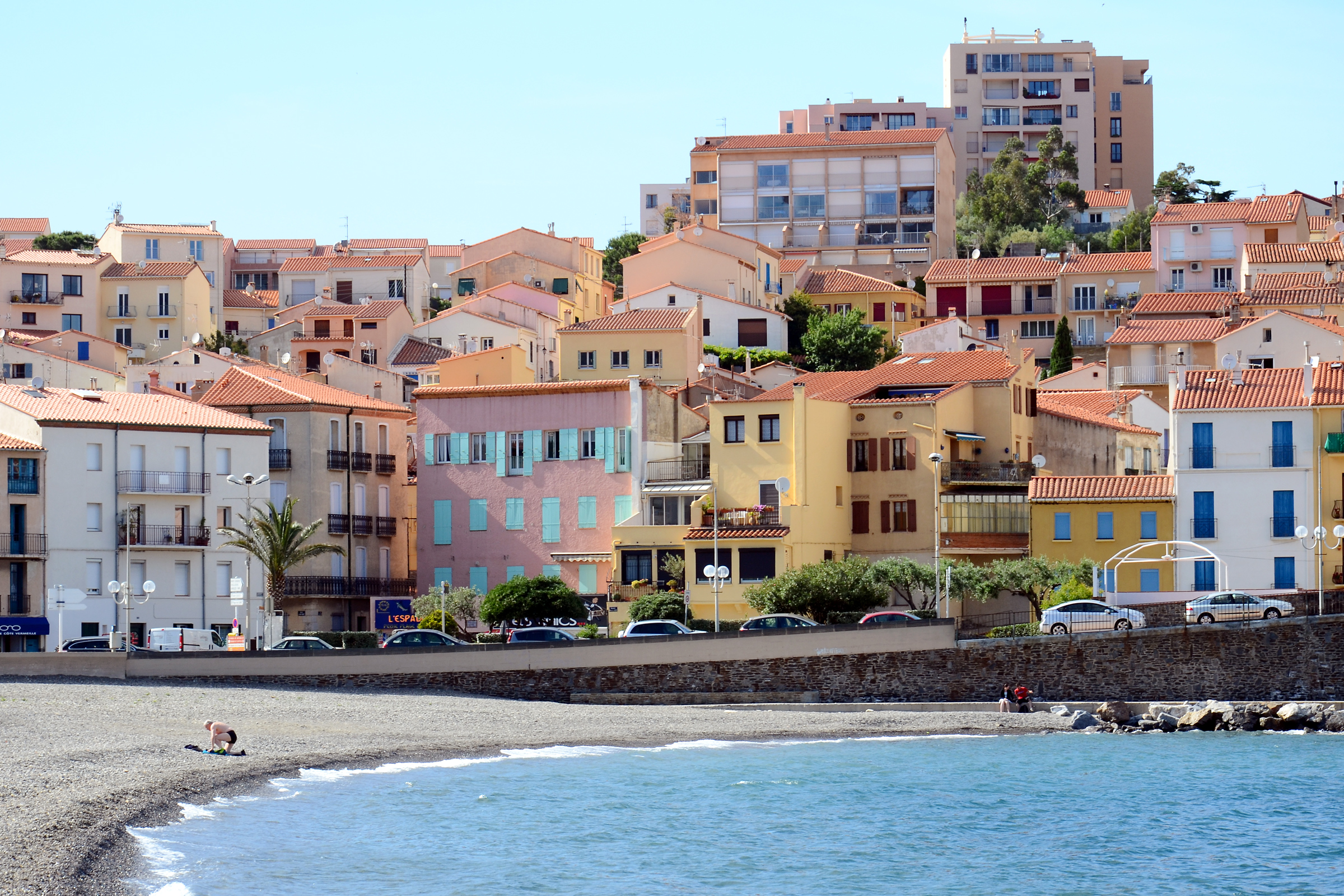 Banyuls-sur-Mer (France)